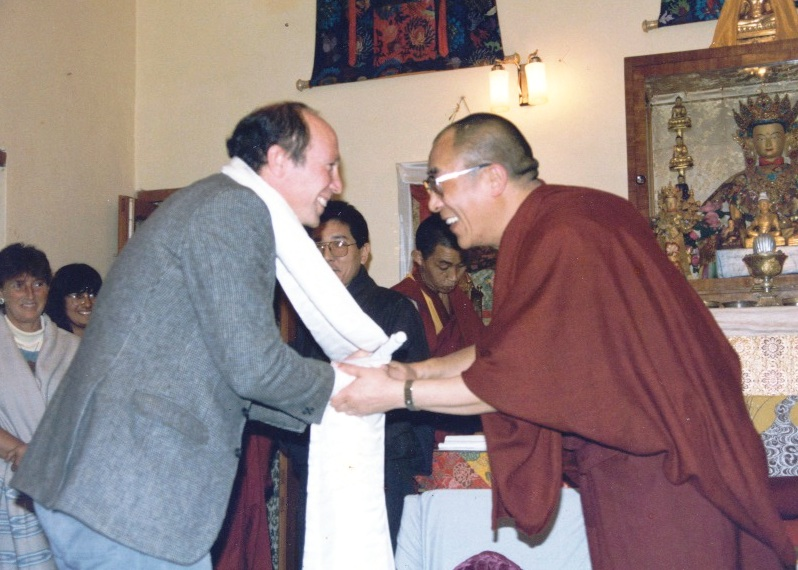 R Adam Engle receiving ceremonial 'khatag' or scarf from the Dalai Lama in Dharamsala, India, 1987, after the successful conclusion of the very first Mind and Life Dialogue between the Dalai Lama and selected notable western scientists, arranged by Engle.